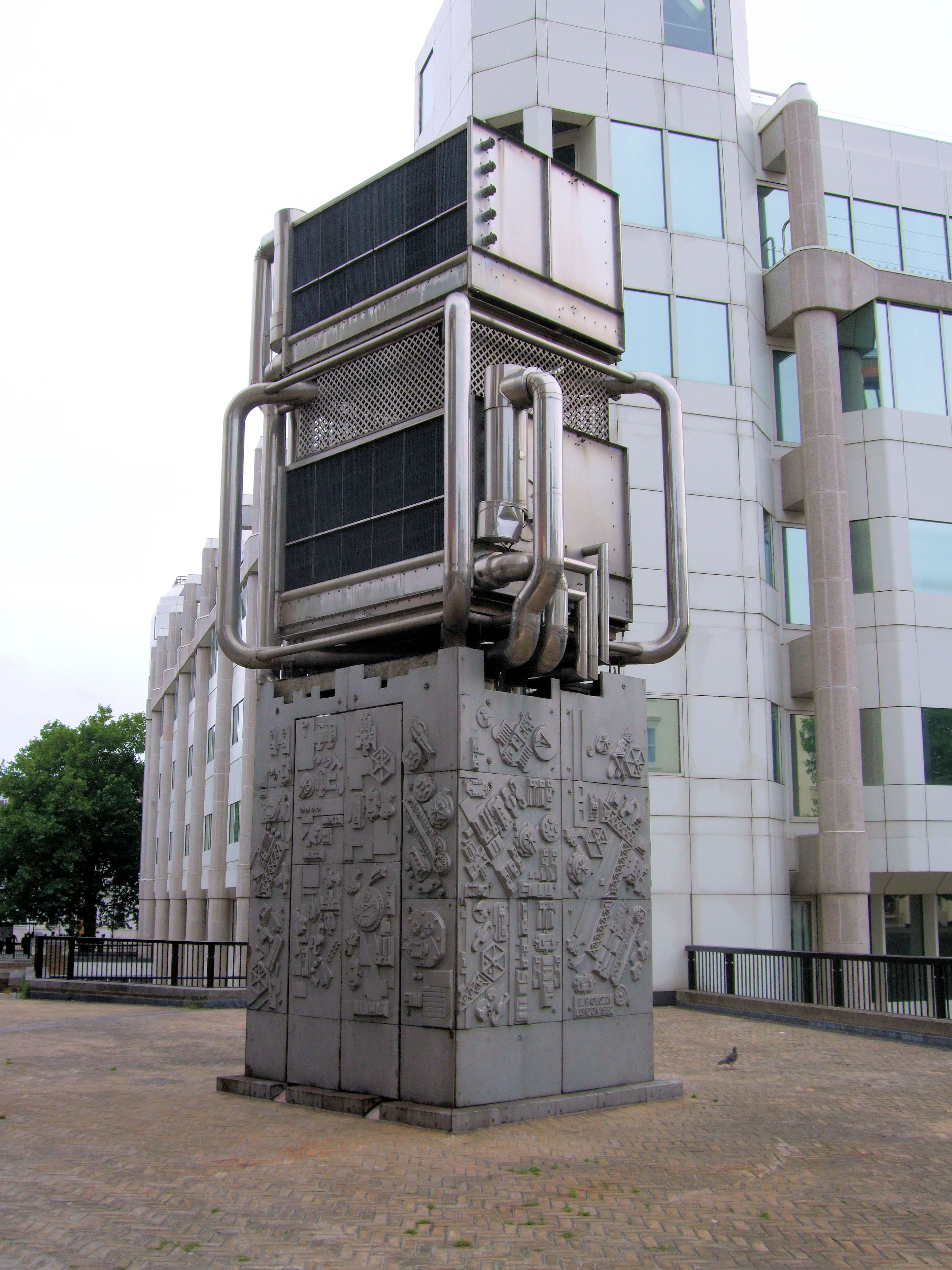 Eduardo Paolozzi's Ventilation Tower Sculpture, Pimlico Tube Station - London